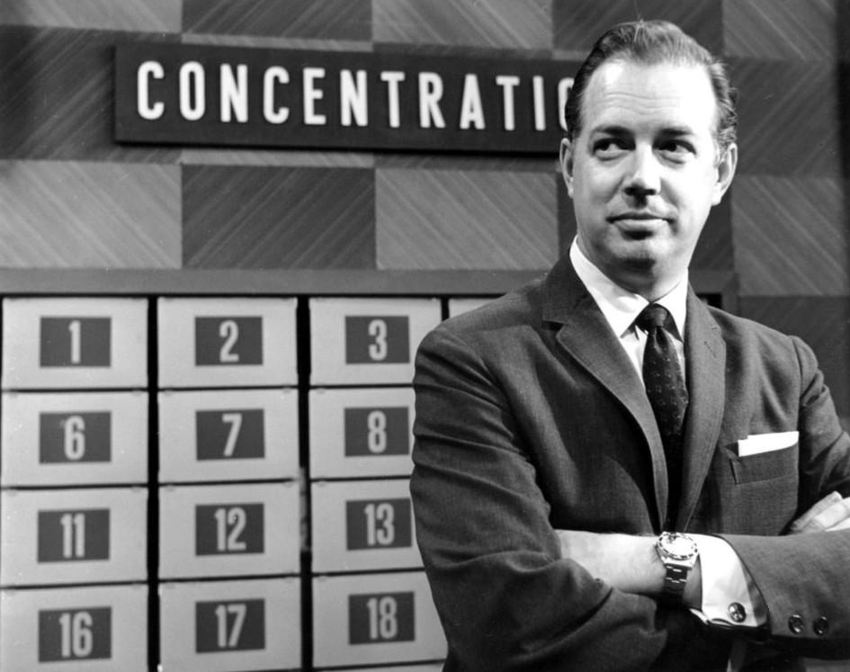 Photo of host Hugh Downs from the television game show Concentration. Downs stands in front of the game board as it appeared before play began.